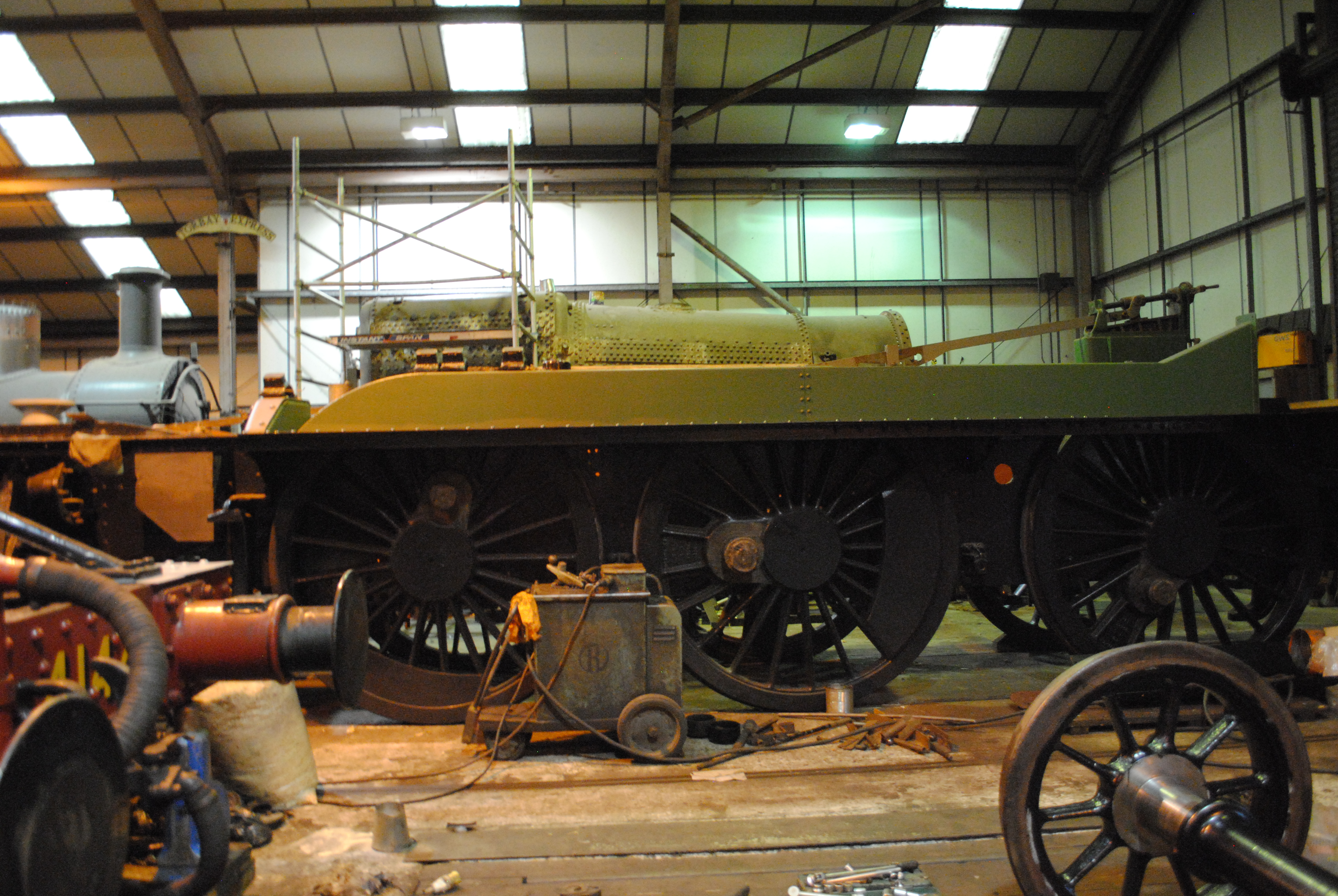 Another GWR replica, being constructed by the Great Western Society at Didcot Railway Centre.